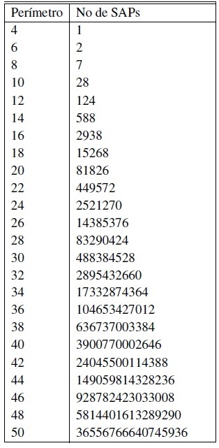 Number of self-avoiding polygons by vertice count